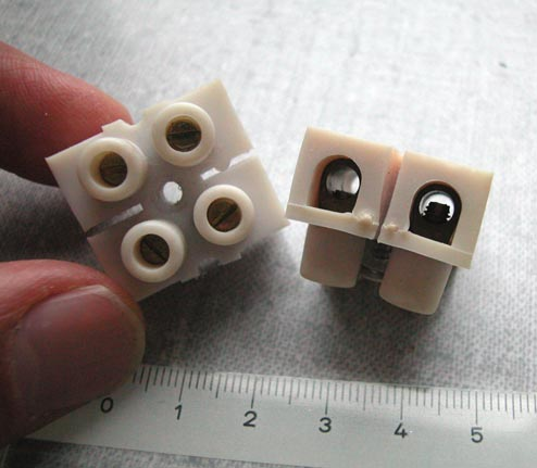 A photo of two luster terminals, the photo was taken on 7th of February 2007 by Tom David (me) who releases it to the public domain for free use where ever needed but the photo should be given further for free also, in that case.